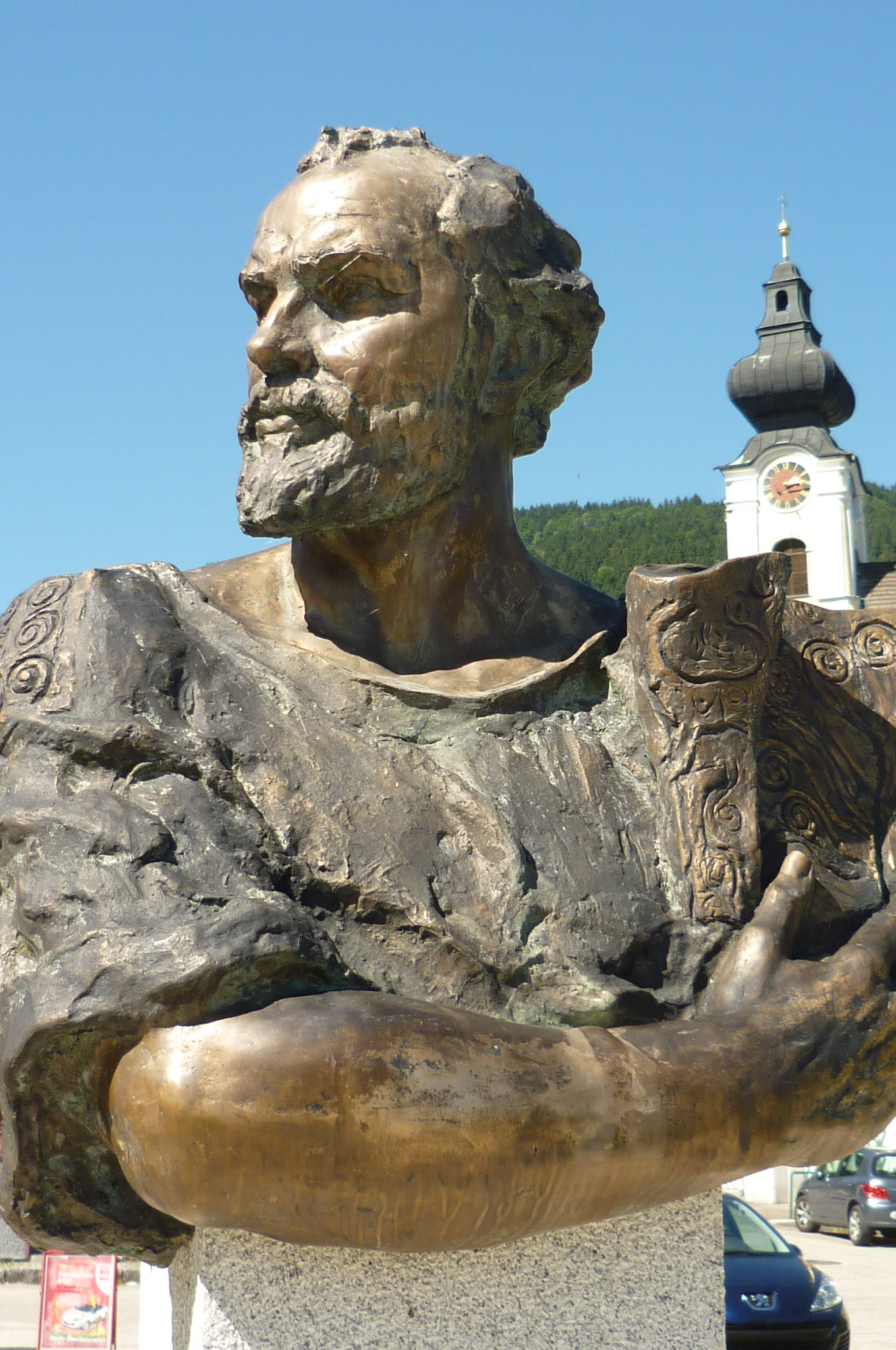 Denkmal für Gustav Klimt am Ufer des Sees in Unterach am Attersee, Oberösterreich, an dem nach 1900 er einige Landschaftsbilder malte Gustav Klimt monument at the beach at Unterach on the Attersee lake, Upper Austria, where he painted several landscapes after 1900